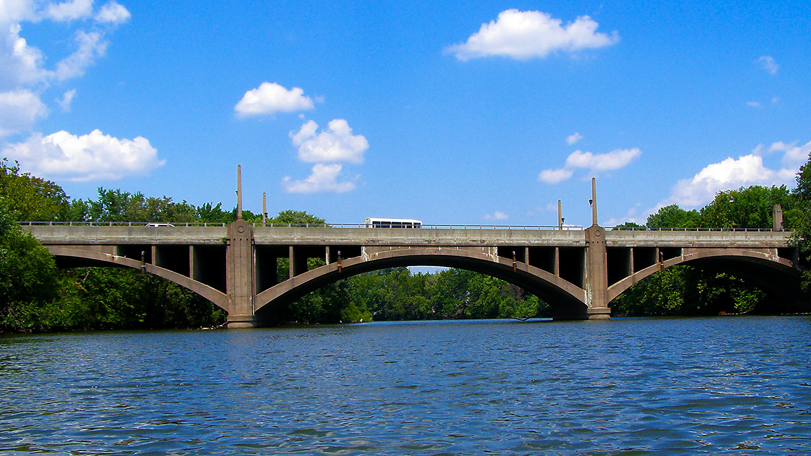 Broadway Bridge (NJ Route 4) over the Passaic River, Elmwood Park - Paterson, New Jersey